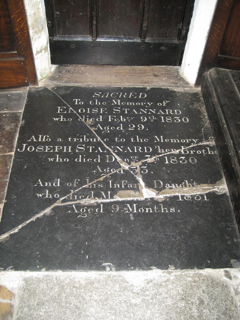 Ther artist Joseph Stannard's grave in St John Maddermarket Church, Norwich